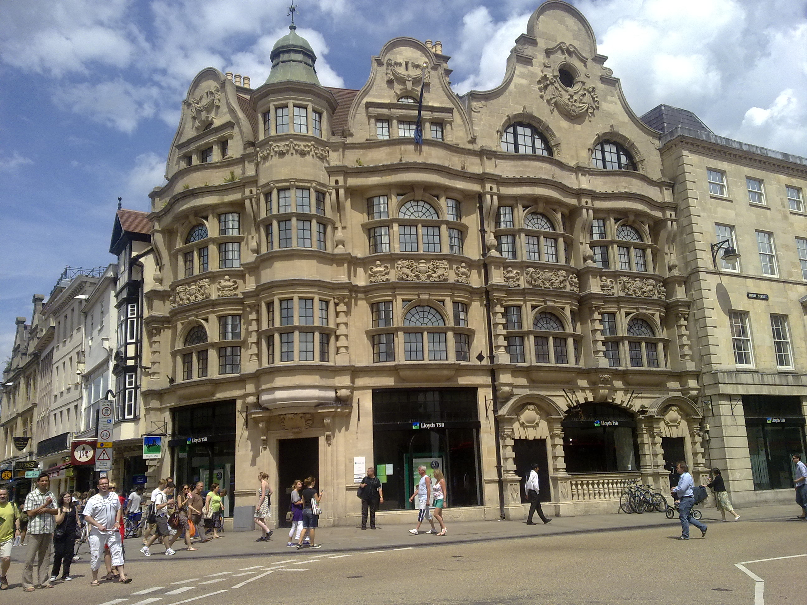 Lloyds TSB Branch at Carfax, the junction of High Street and Cornmarket Street, Oxford, England